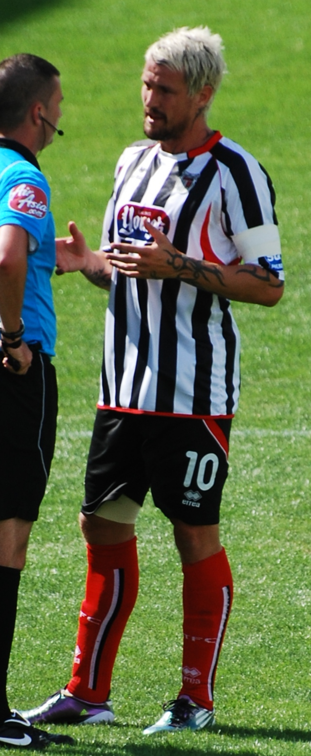 Lee Peacock. Image cropped from original at flickr.